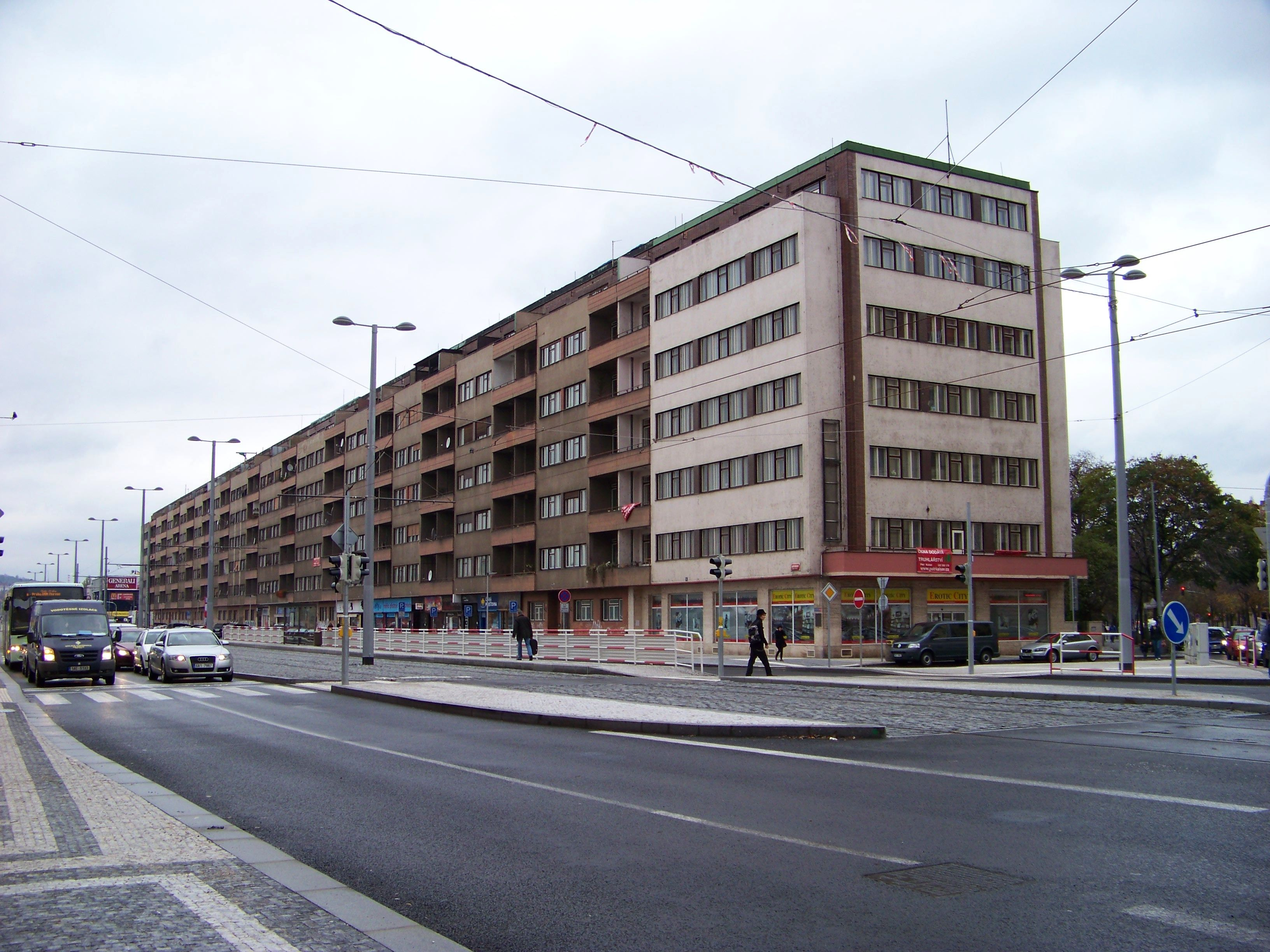 Prague-Bubeneč-Letná, the Czech Republic. Milady Horákové 72–96, Molochov block.